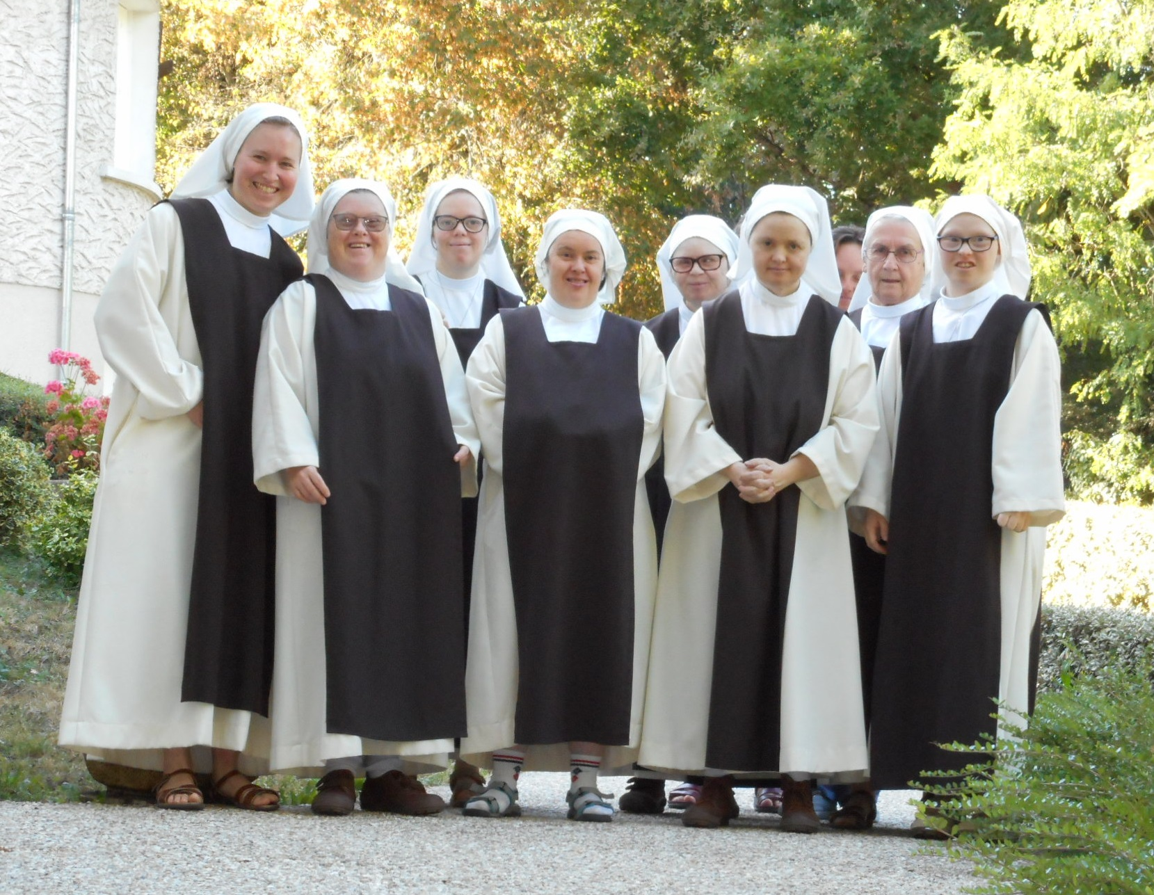 Les Petites Sœurs Disciples de l'Agneau